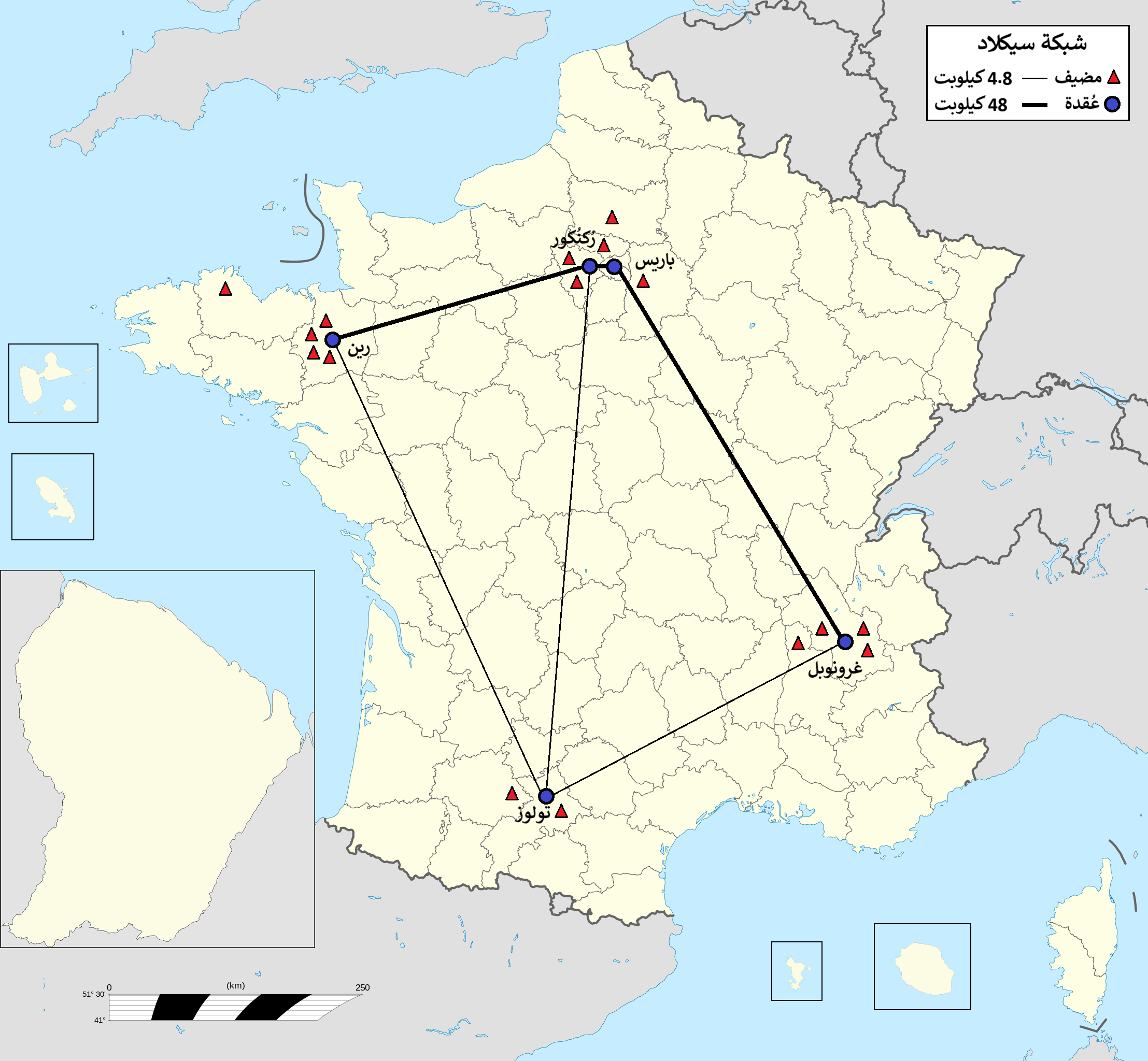 The CYCLADES Network, the first packet-switched network